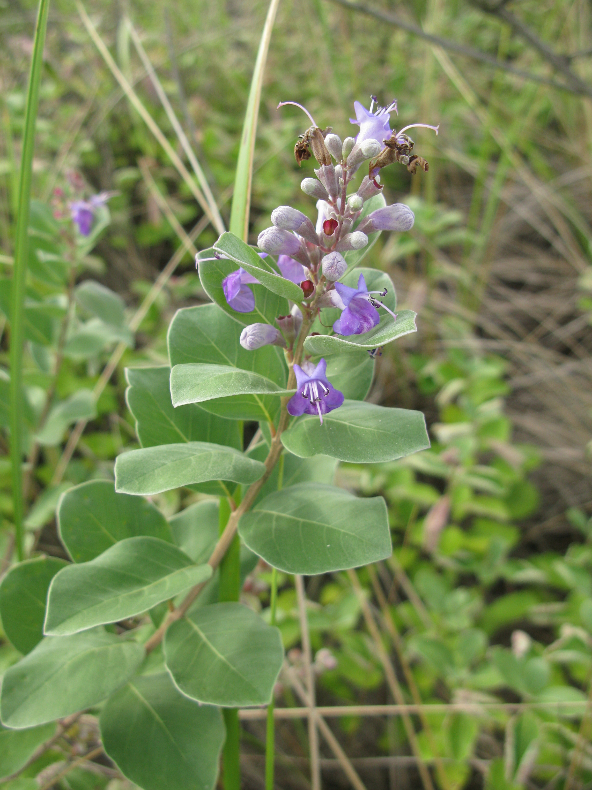 Vitex rotundifolia, Syonai area, Yamagata pref., Japan